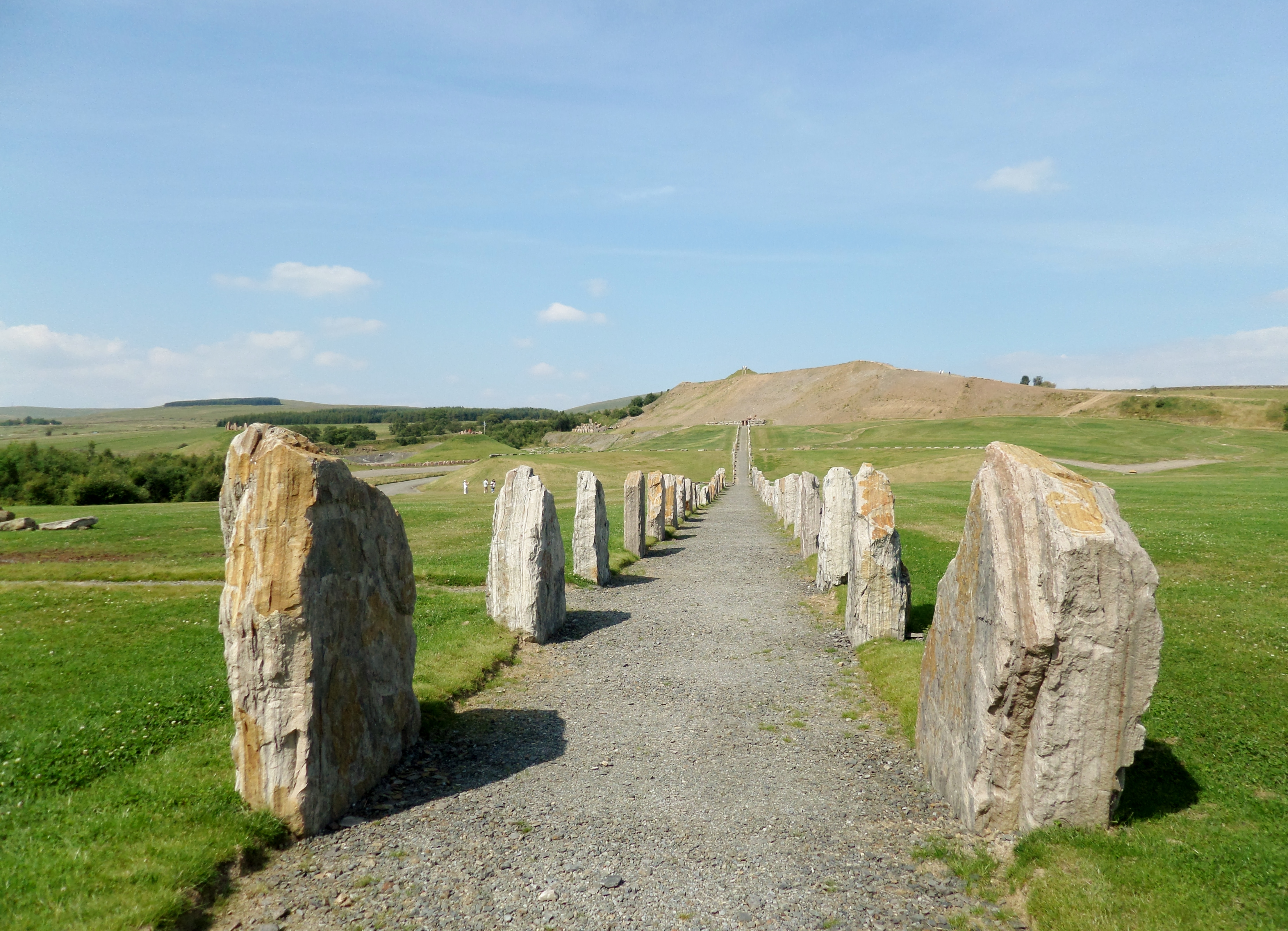 Stone rows on the North-South Line at the Crawick Multiverse, Sanquhar, Scotland.